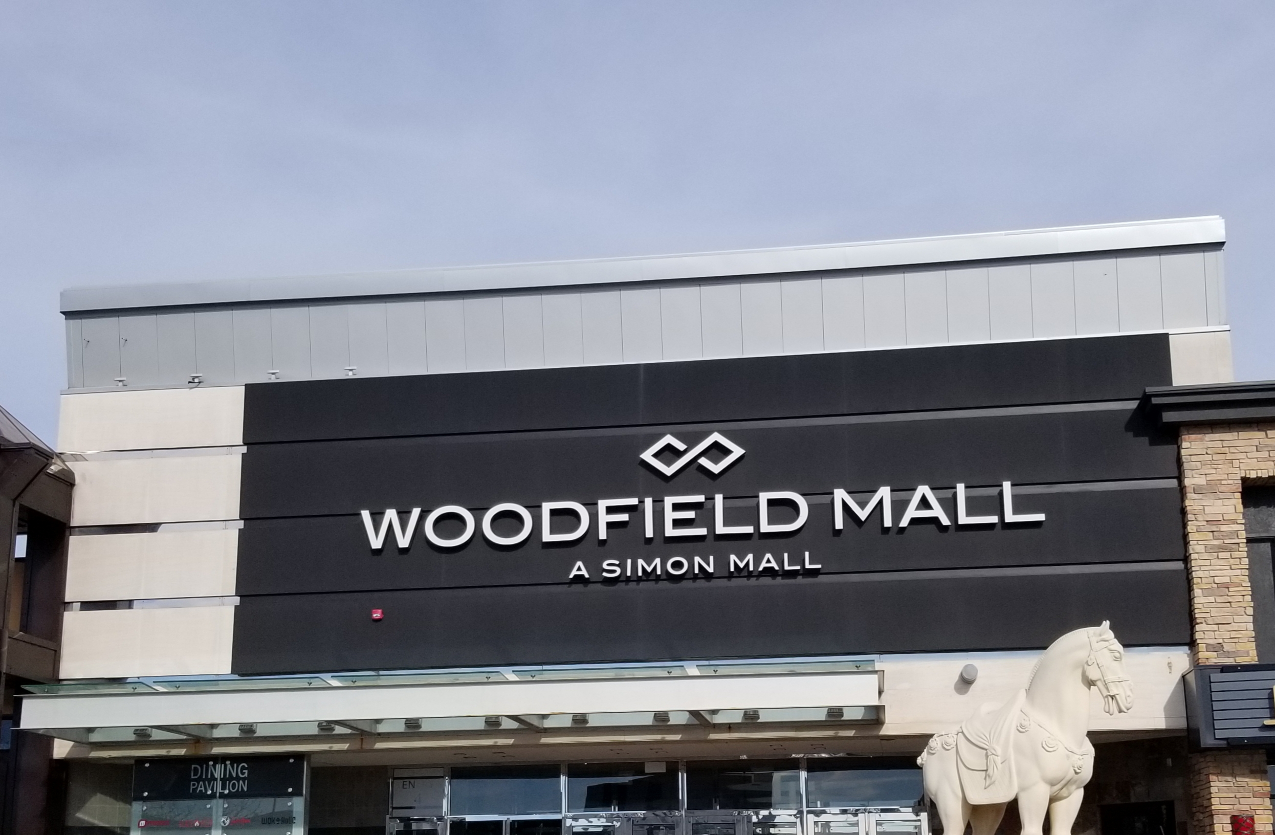 One of several entrances to the Woodfield Mall.